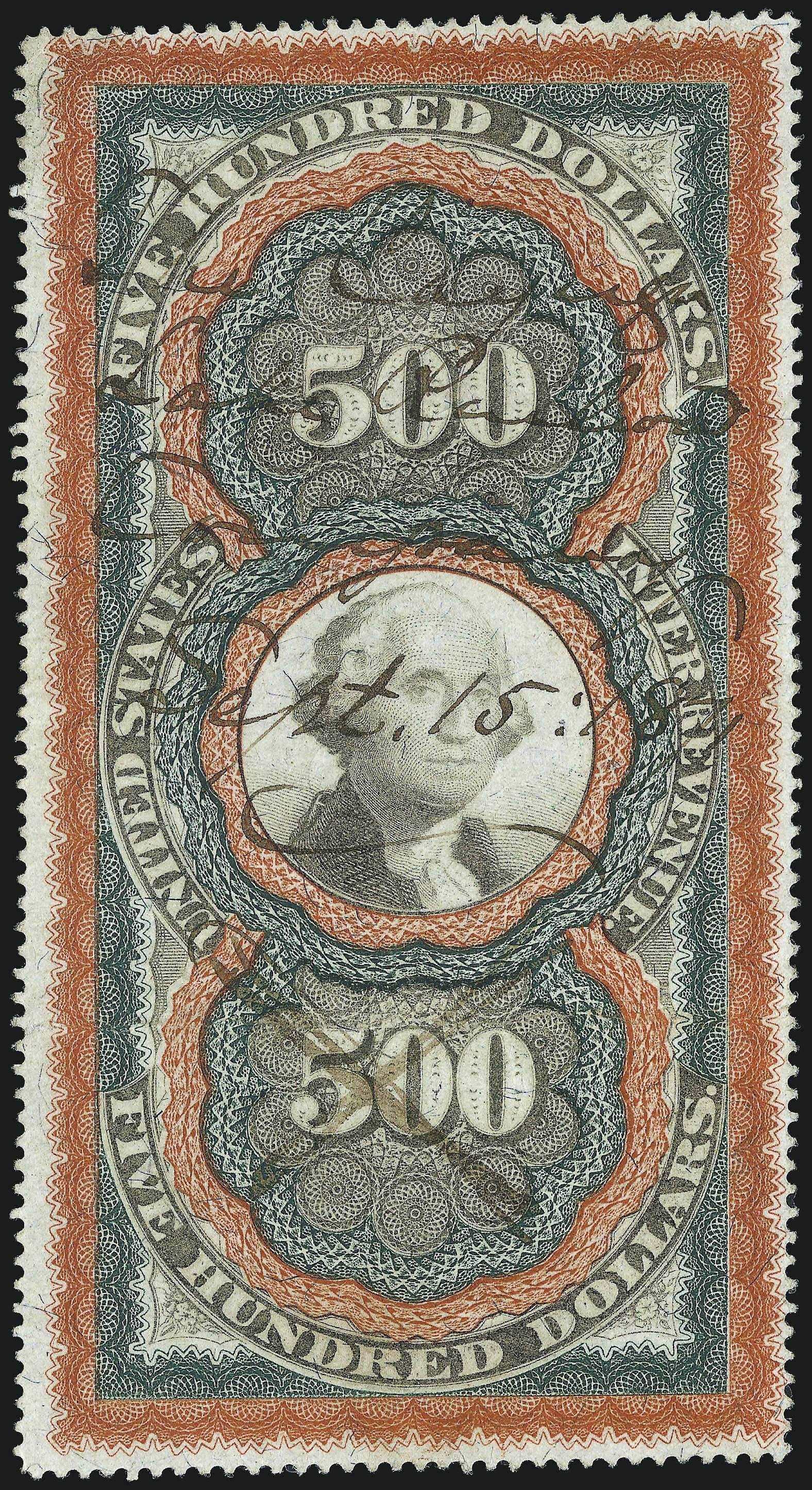 Image of Washington revenue stamp, 200-dollars, issue of 1871 (Scotts# R133)